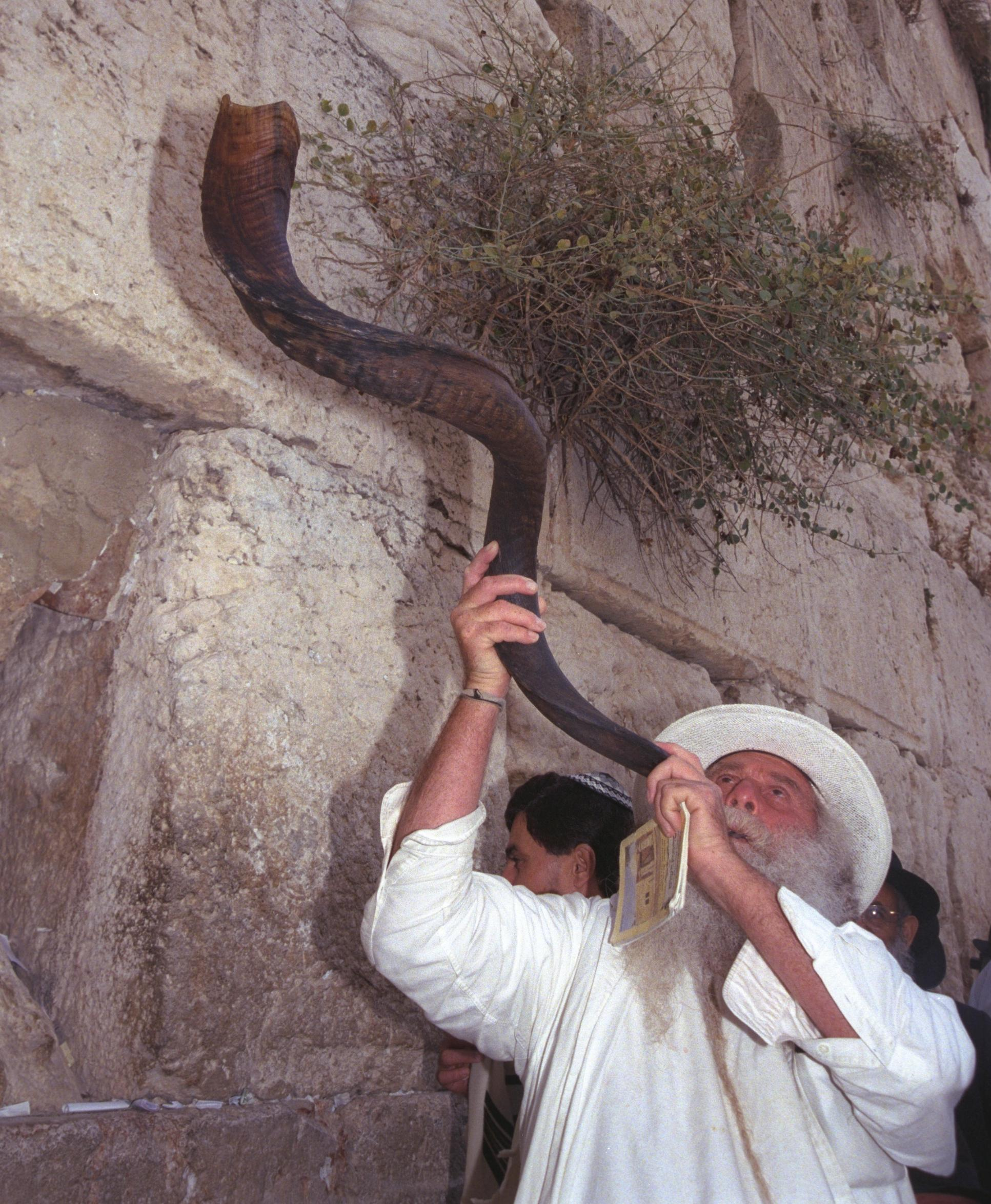 The blowing of the shofar at the Western Wall in Jerusalem during the eve of Rosh Hashanah. Photo by Ohayon Avi, GPO. תקיעת שופר בערב ראש השנה, בכותל המערבי בירושלים.